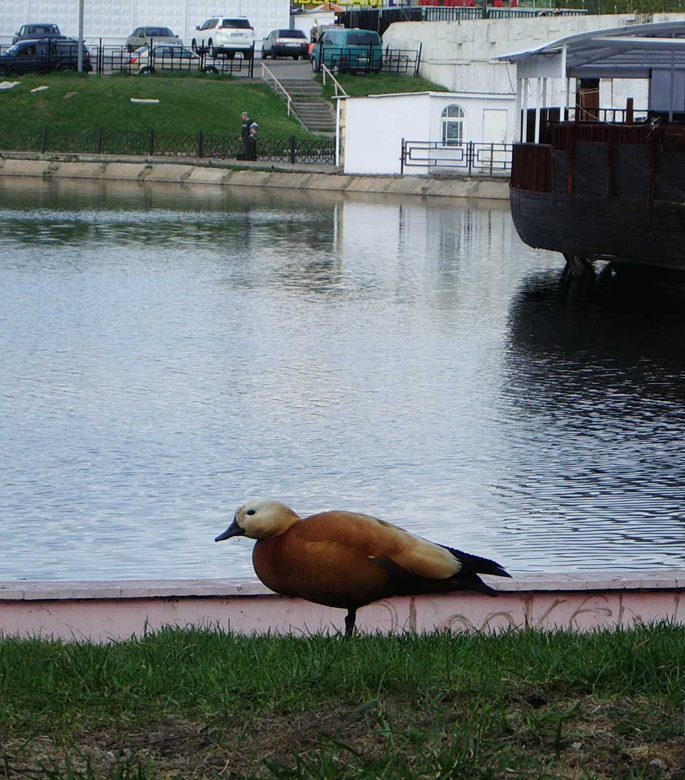 Ruddy Shelduck at the Ambulatorny pond in Moscow